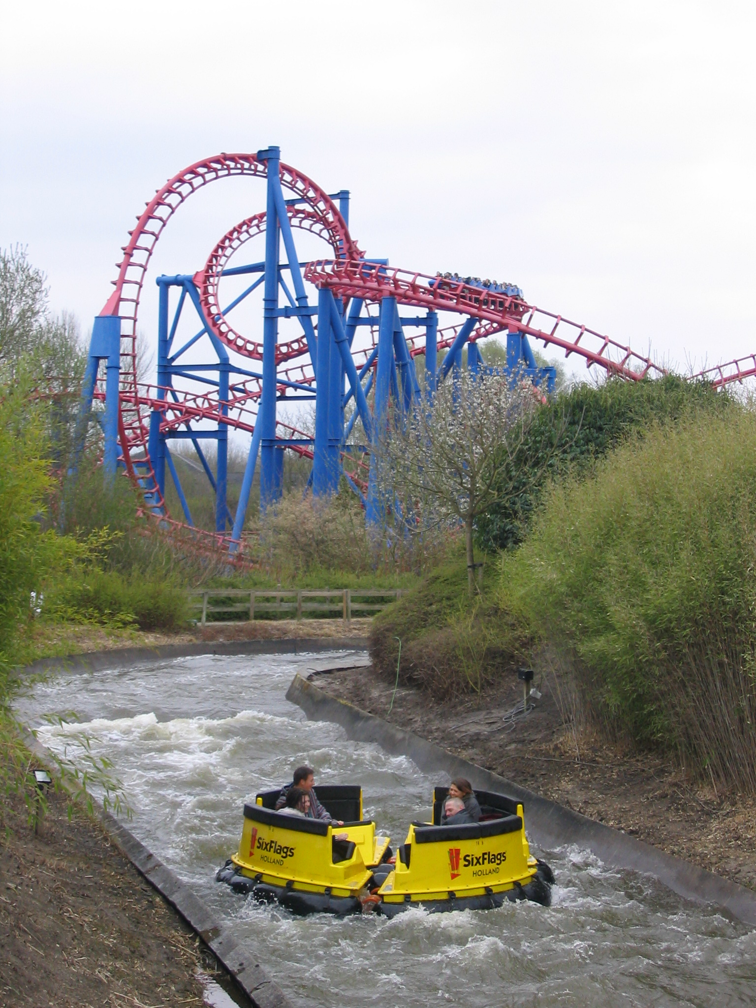 Boat of El Rio Grande and roller coaster Xpress at Walibi World, Netherlands